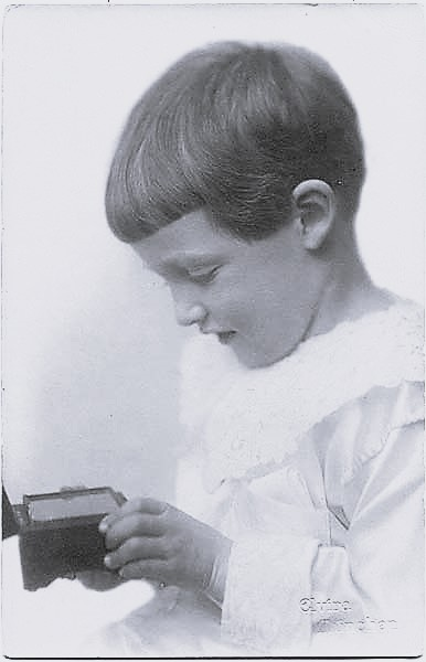 Prince Ludwig of Bavaria (1913–2008)